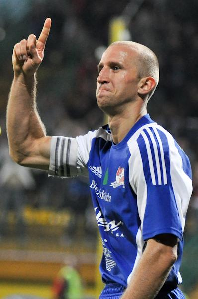 Sławomir Cienciała – Polish defender.